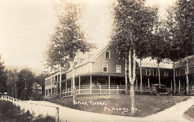 The Poplar Tavern (1854-1980), North Newry, Maine